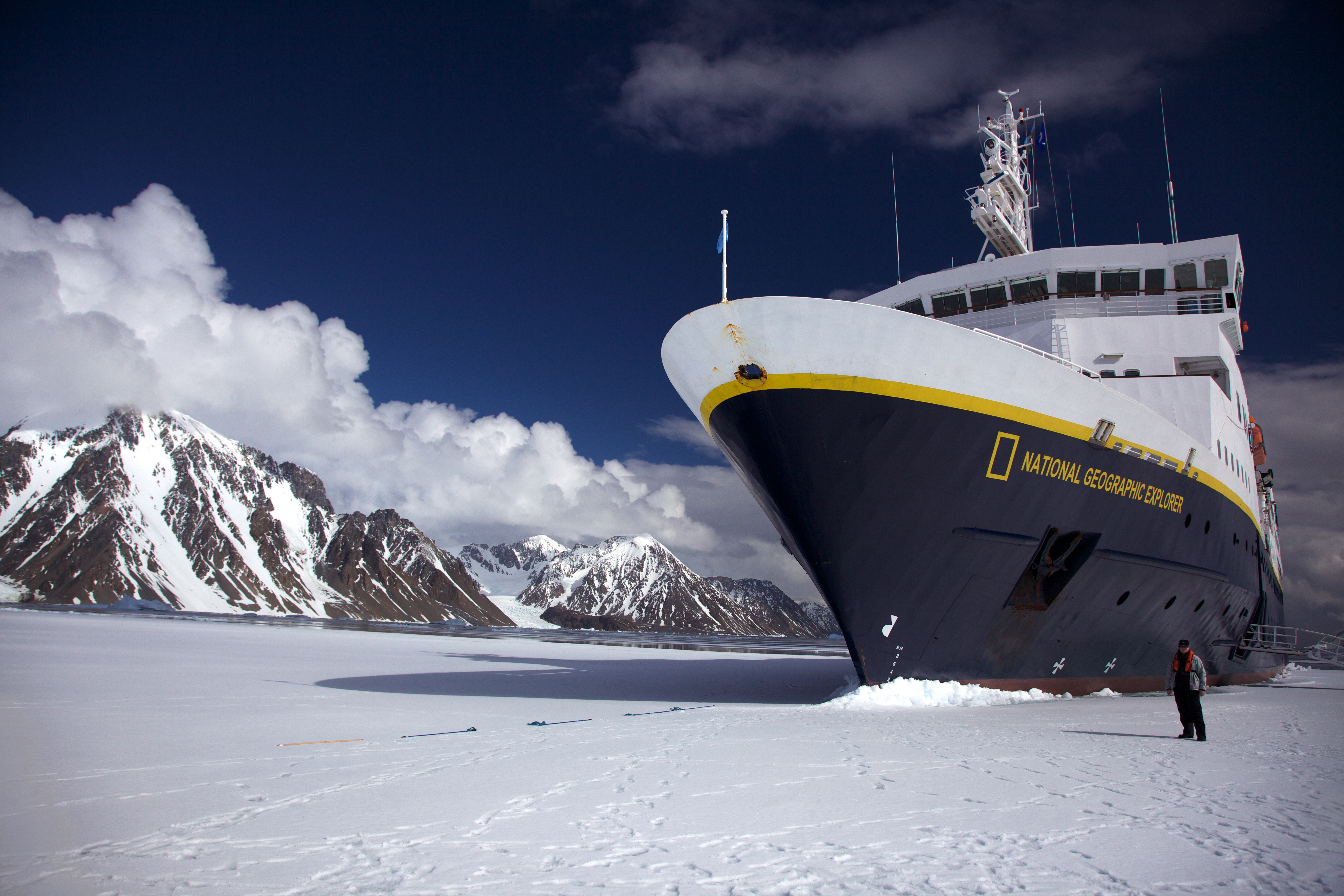 National Geographic Explorer in fast ice near the Antarctic coast.